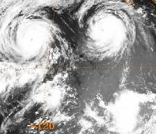 Visible image of Tropical Depression Eleven-E and hurricanes Hernan and Iselle on 1990-07-25 south of Mexico as seen by GOES-7.